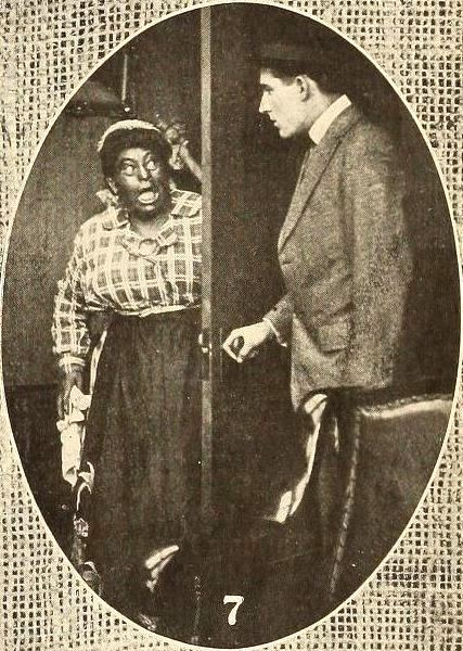 Still from the American film The Old Chemist (1915) with Jennie Lee (in blackface) and Frank Bennett, on page 9 of the March 20, 1915 Reel Life magazine. The magazine page had stills from several films and each had a number. In the early years of film, black characters were routinely played by whites in blackface, and this practice did not end until the end of the 1930s when attitudes in the U.S. changed.